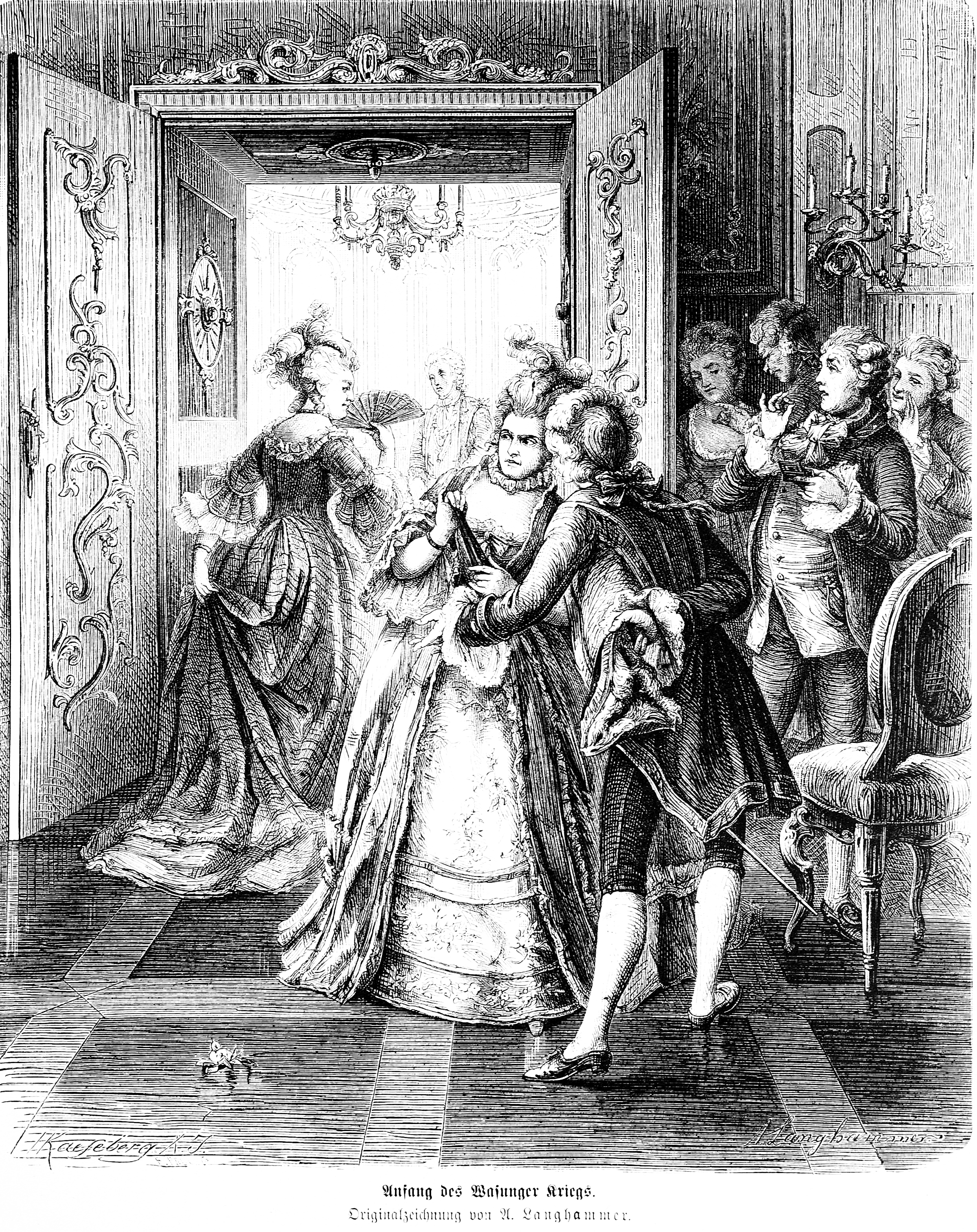 caption: "Anfang des Wasunger Kriegs.Originalzeichnung von A. Langhammer."